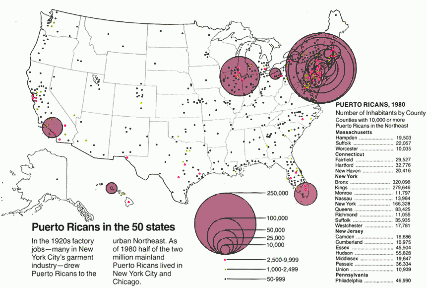 Puerto Rican immigration Chart